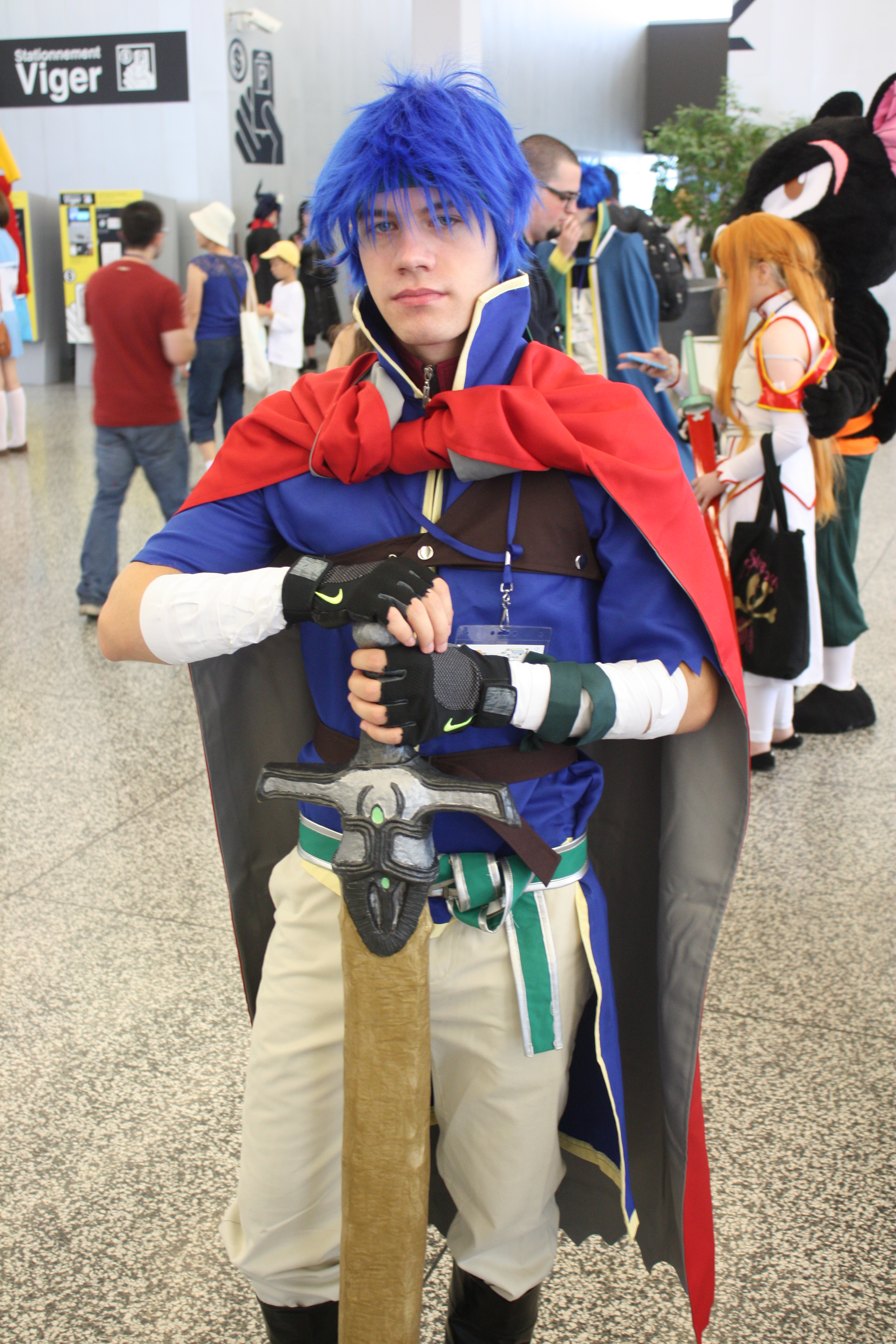 Otakuthon 2014: Ike (Fire Emblem)